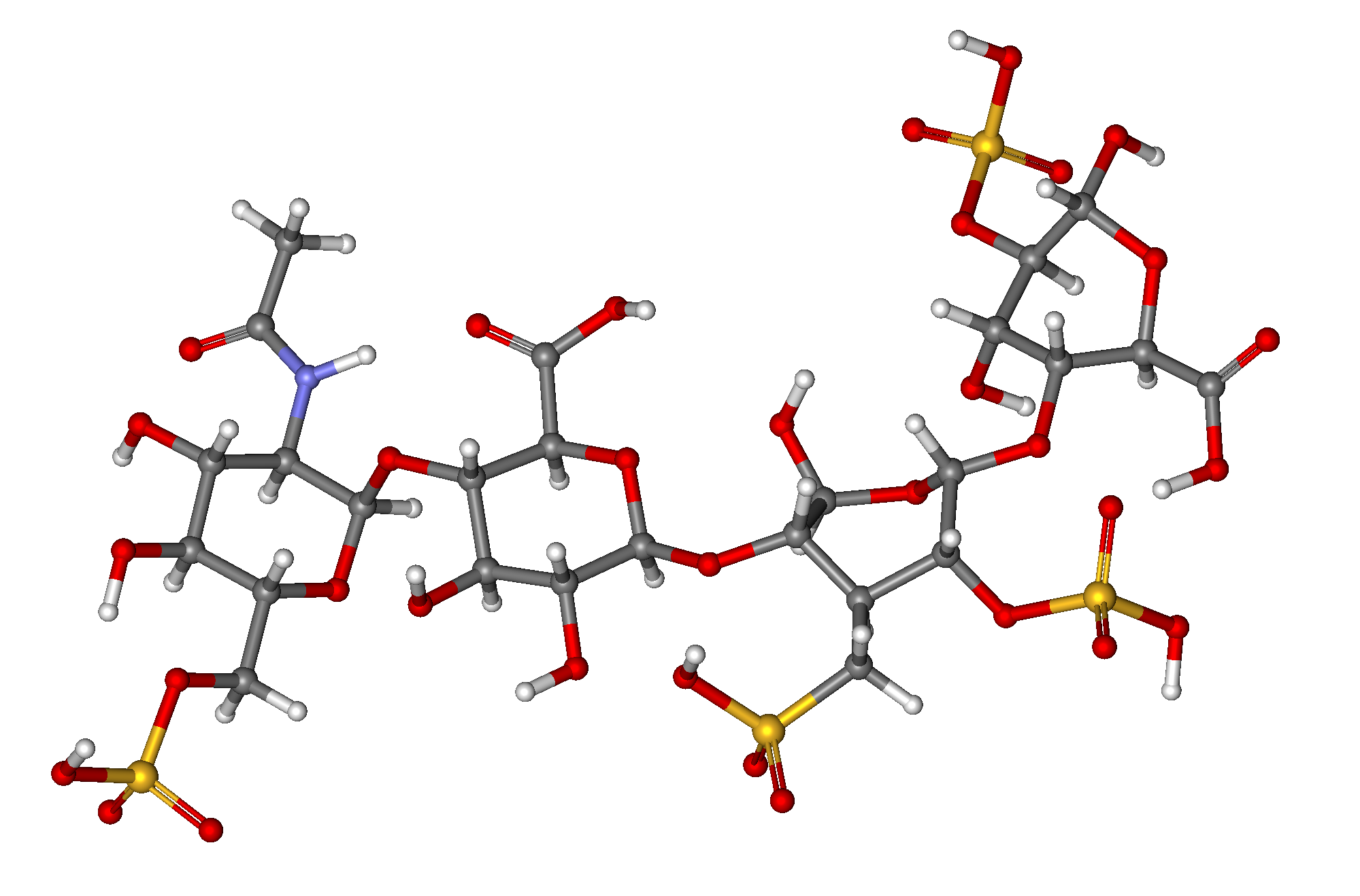 Ball-and-stick model of heparin molecule. The structure is taken from ChemSpider. ID 17216115